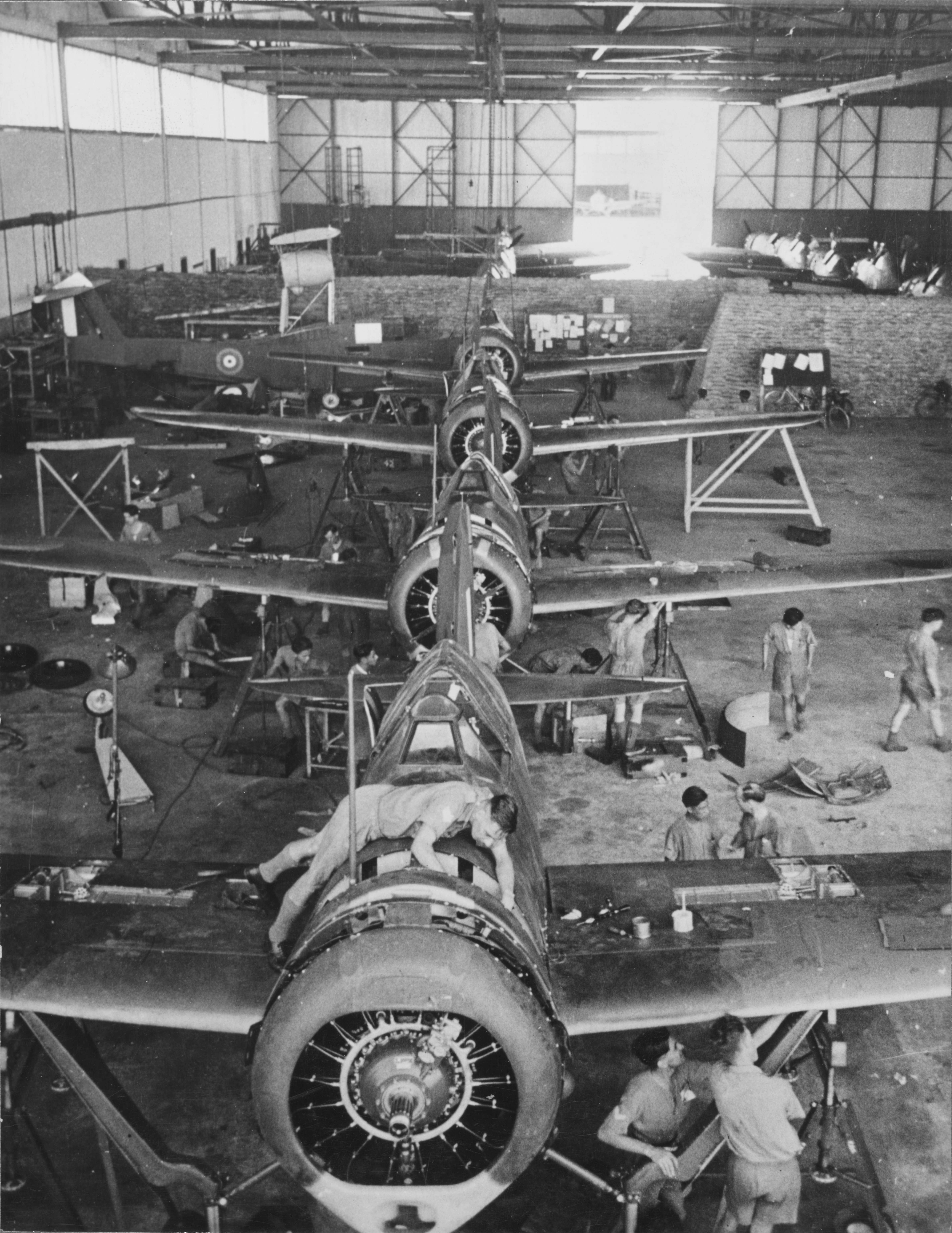 Brewster Buffalo Mark Is being re-assembled at Singapore following shipment directly from the USA. These particular aircraft equipped No. 67 Squadron RAF, reformed at Kallang in March 1941.